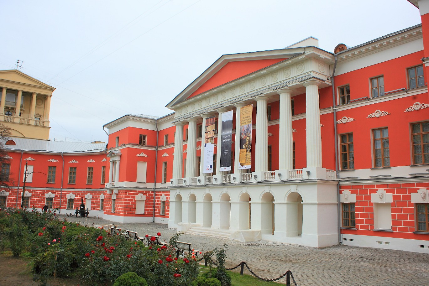 Moscow, 21, Tverskaya Street. The Museum of Contemporary Russian History has an extensive collection (of over 2 million exhibits) that documents the country's political development over the last 150 years. All sorts of unique items including photos, posters, books, and documents look at and analyse the most important events in recent history - the museum even has the actual stones thrown at policemen by workers in the 1905 Revolution. There are also detailed and informative accounts of events since the fall of Communism.